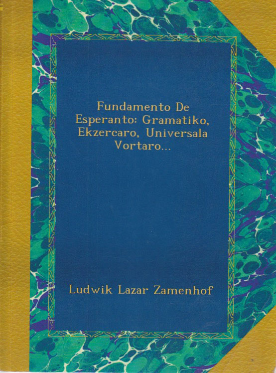 This is a scan of the cover of a reproduced copy of Fundamento de Esperanto.